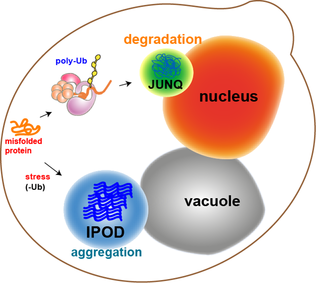 Eukaryote cells sort misfolded proteins into to two quality control compartments: JUNQ, which is tehtherd to the nucleus, and IPOD,which is tehtherd to the vacuole, based on their ubiquitination state.